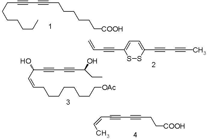 Naturally Ocurring Polyynes